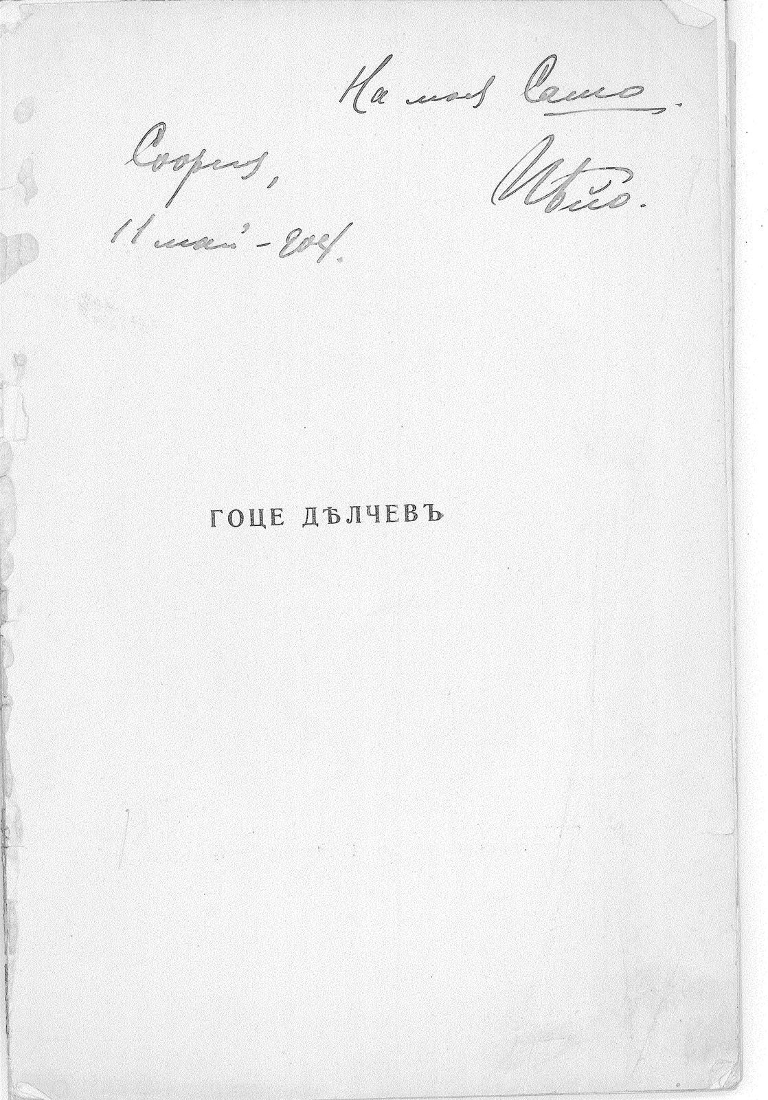 Gotse Delchev by Peyo Yavorov